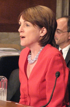 Carol Browner, principal in The Albright Group, testifying before the U.S. Senate Committee on Environment and Public Works regarding the implications of the Supreme Court’s decision regarding the EPA’s authorities with respect to greenhouse gases under the Clean Air Act. Full Committee Hearing, Tuesday, April 24, 2007 09:45 AM, EPW Hearing Room - 406 Dirksen.